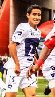 UNAM player Luis Fernando Fuentes